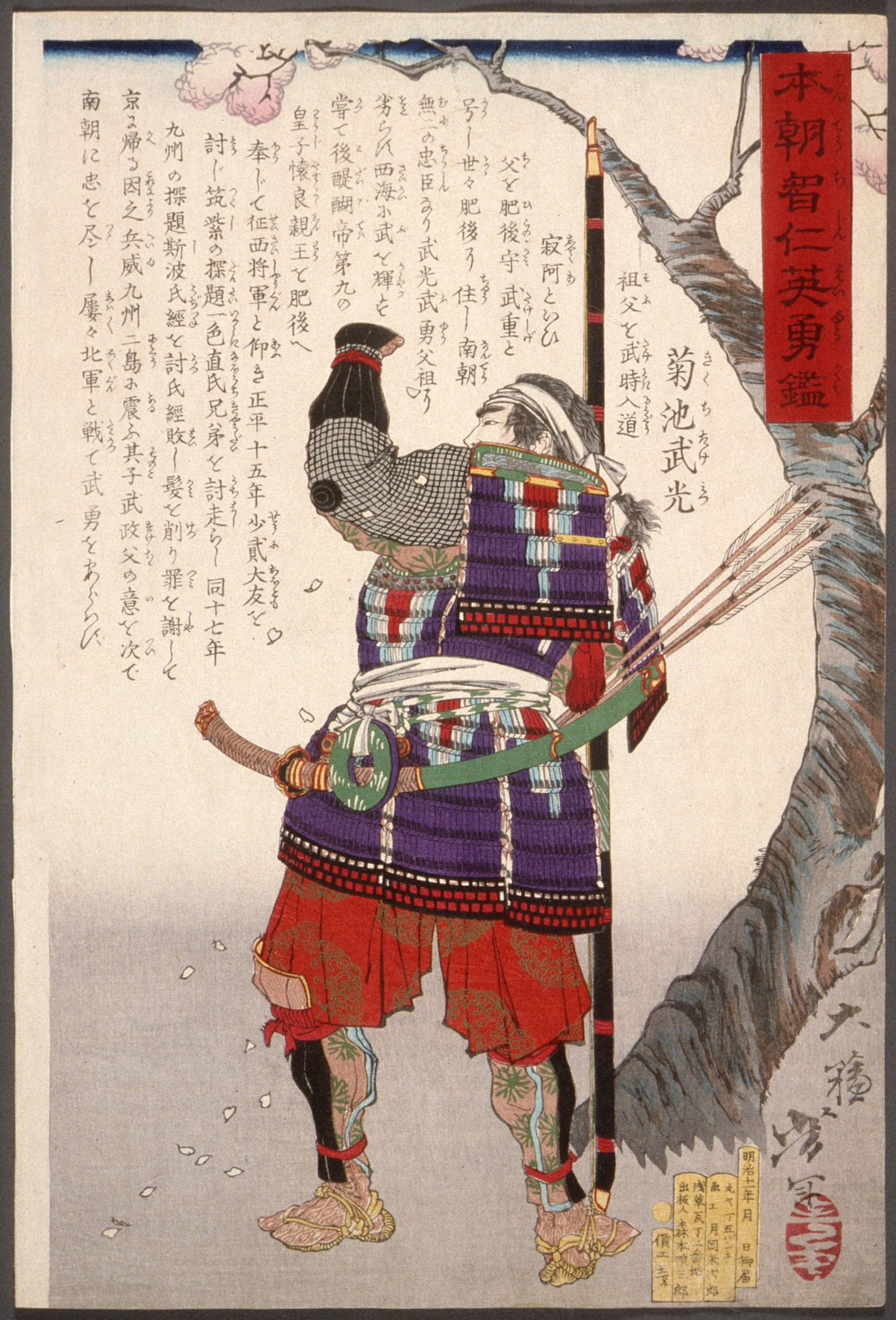 Japan, 1878 Series: A Mirror of Wisdom, Benevolence, and Valor in Japan Prints; woodcuts Color woodblock print Herbert R. Cole Collection (M.84.31.271) Japanese Art